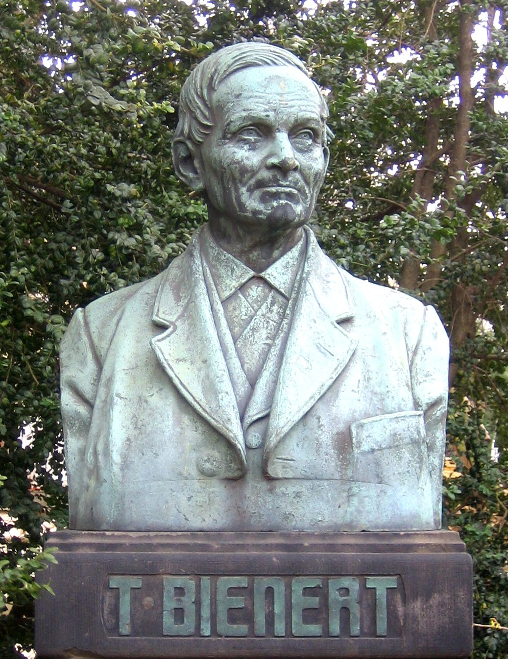 Bust of Gottlieb Traugott Bienert in Dresden-Plauen (Germany)